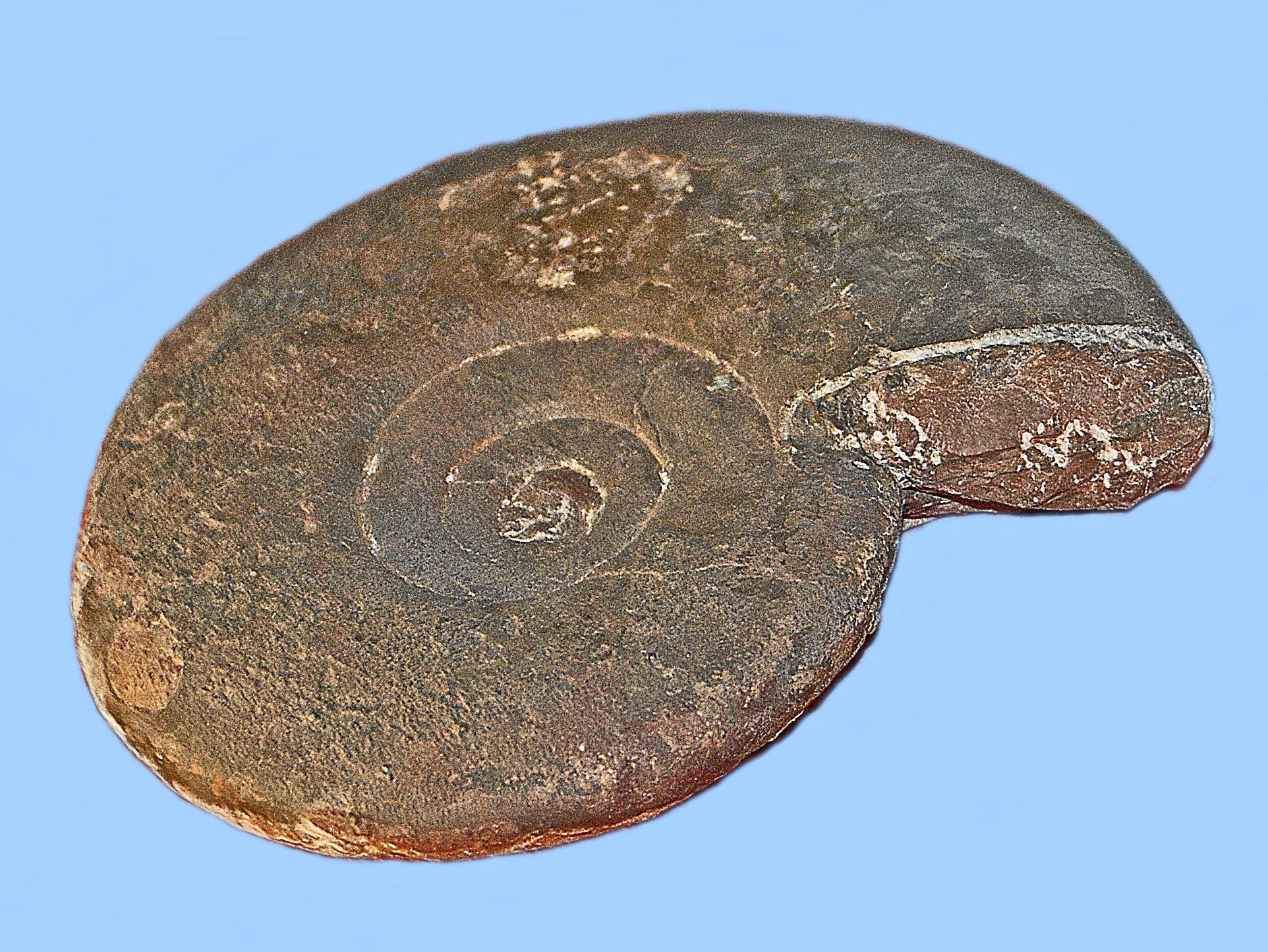 Gymnites incultus from Bosnia. On display at Galerie de paléontologie et d'anatomie comparée in Paris